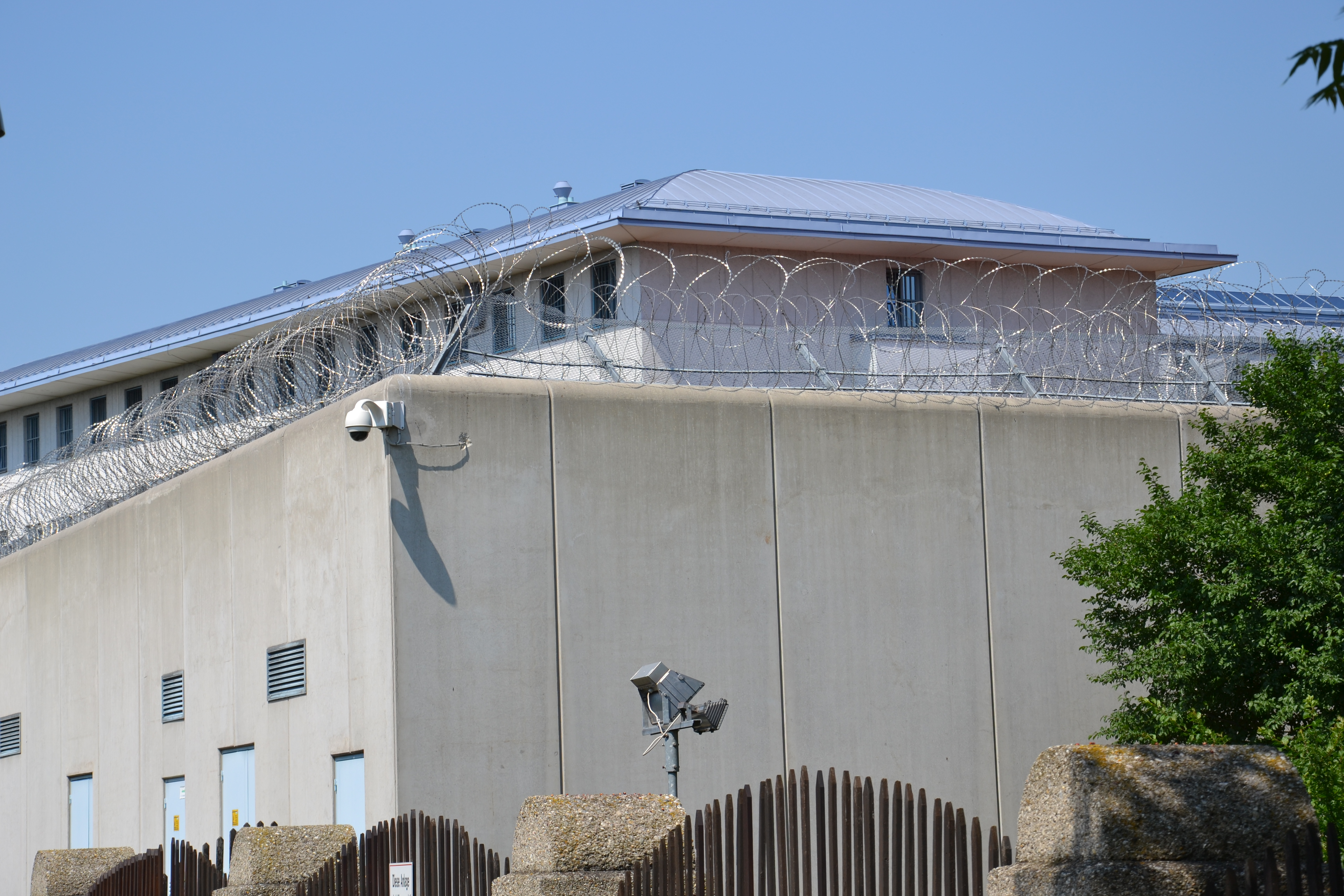 The Justizanstalt Simmering is a prison in austrias capital Vienna